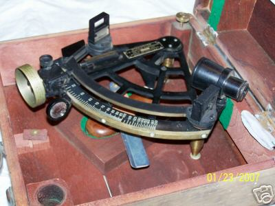 A United States Navy Bureau of Ships Mk V Mod 0 Stadimeter made by Schick Incorporated in Stamford CT in 1942.